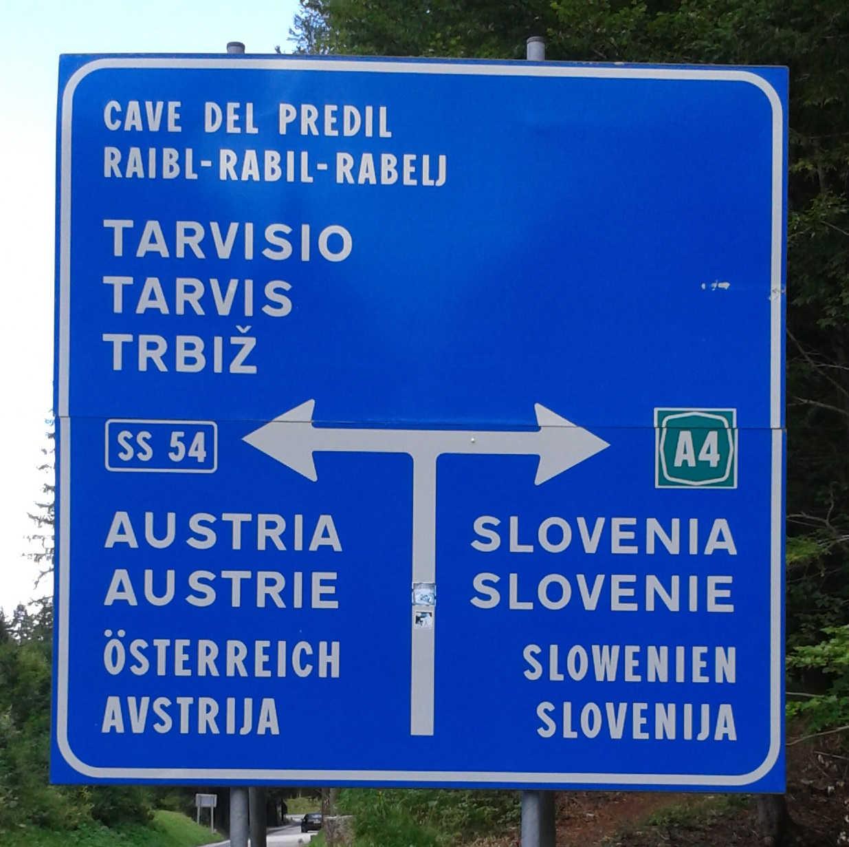 A quadrilingual traffic sign near Lago del Predil, Friuli-Venezia Giulia, Italy. The languages on it are: Italian, Friulian, German and Slovene.